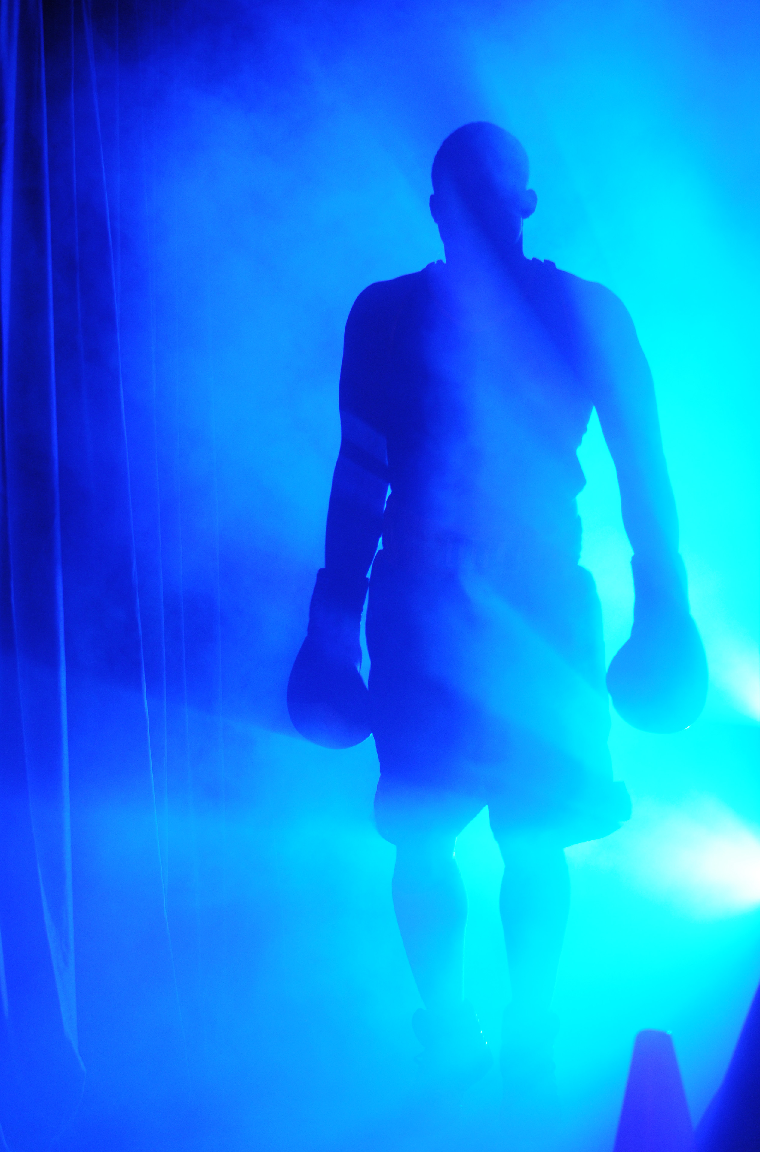 LACKLAND AIR FORCE BASE, Texas (Feb. 18, 2011) Hospital Corpsman Brandon Wicker upper cuts Army Spc. Jeffery Spencer in the 178 lb. weight class during the gold-medal bout in the final of the 178 lb. weight class of the 2011 Armed Forces Boxing Championship. Spencer defeated Wicker 12-2. (U.S. Navy photo by Mass Communication Specialist 2nd Class Elliott Fabrizio/Released)